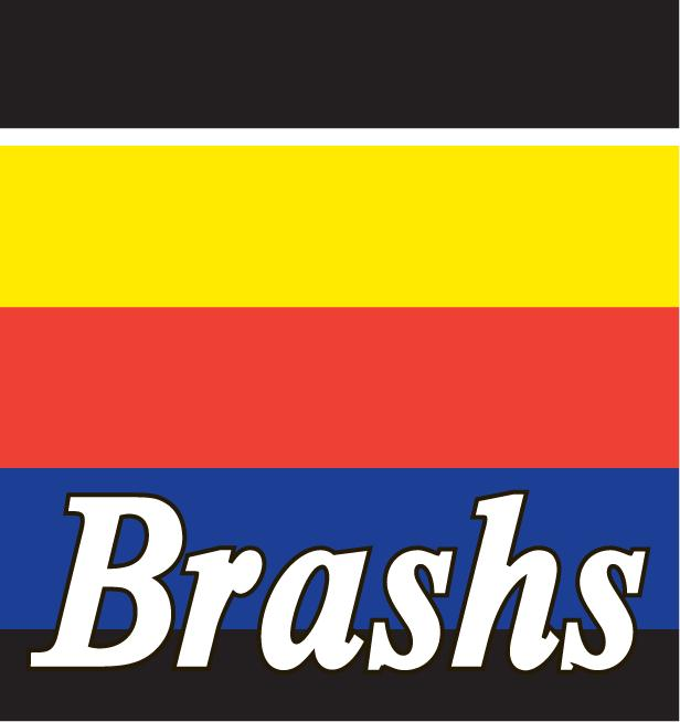 This logo is from the Australian Music retail chain Brashs, which was officially bankrupt of February 1998.